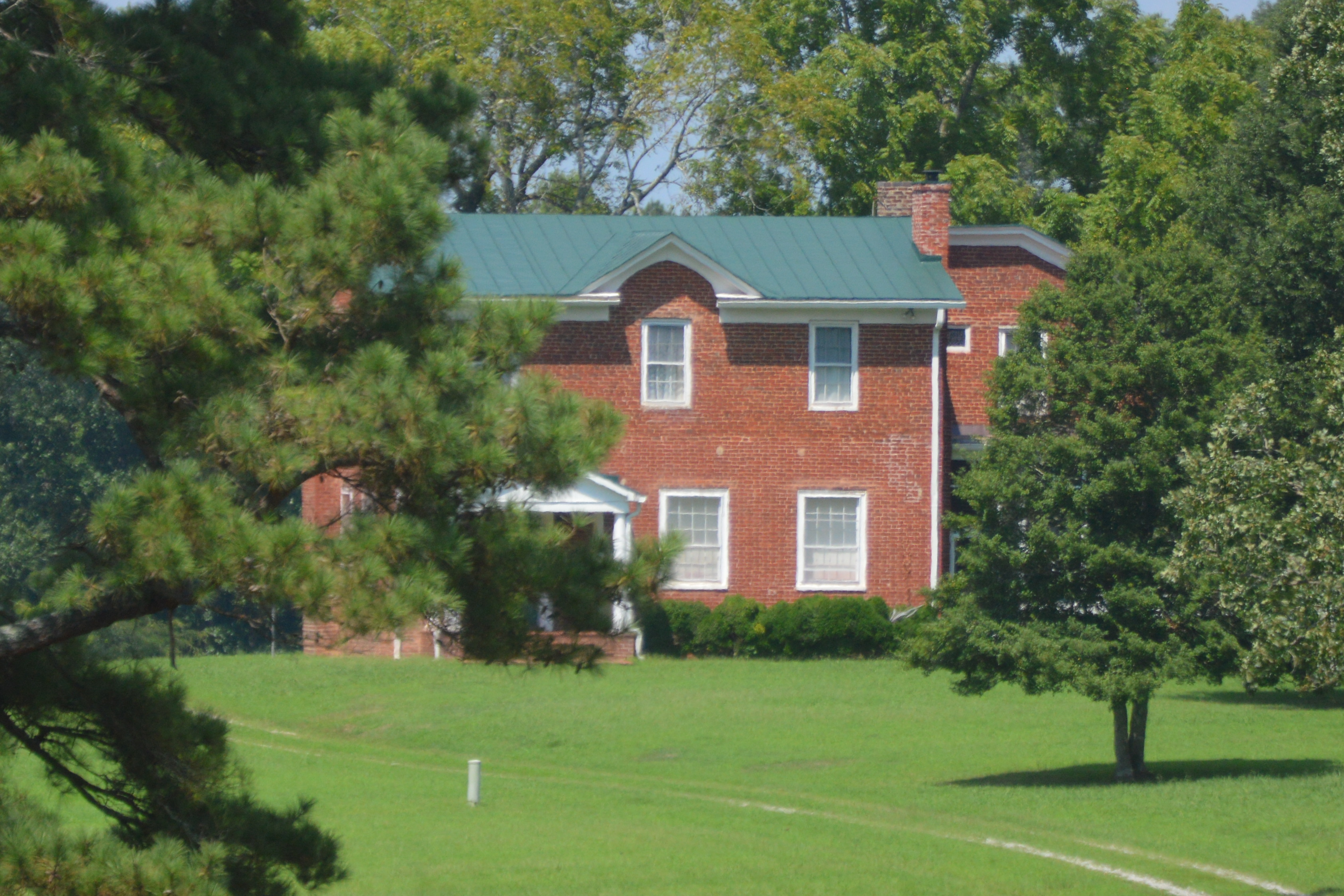 Distant view of Bechelbronn, located on Rubermont Road north of Victoria in Lunenburg County, Virginia, United States. Built in 1840, it is listed on the National Register of Historic Places.